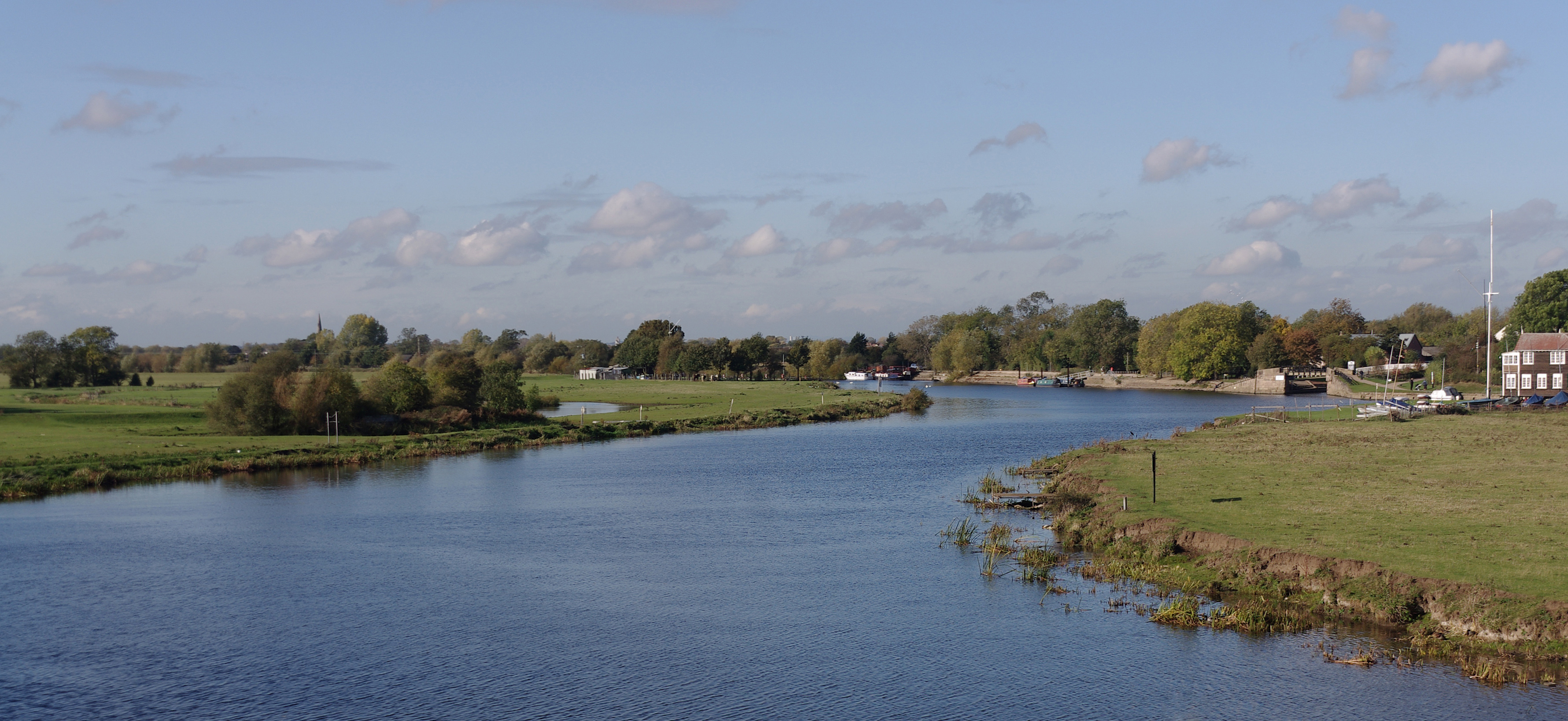 The River Trent at Long Eaton, taking from a southbound train on the bridge.